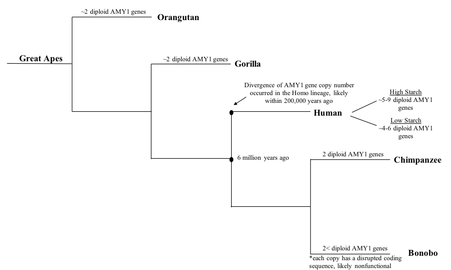 amy 1 genes in apes